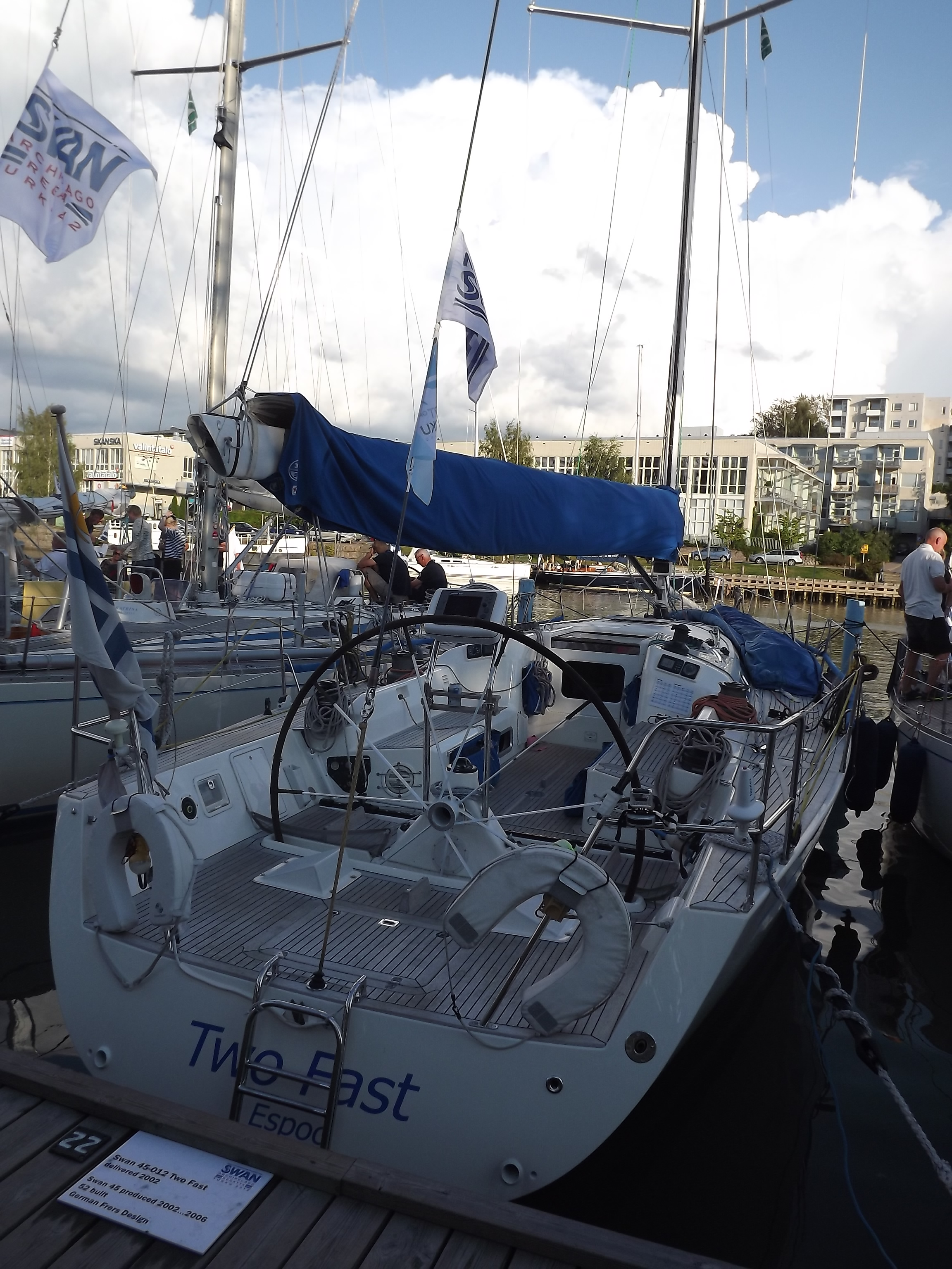 Two Fast, a Swan 45, built 2002, in Turku guest harbour. Swan Archipelago Regatta 2012.